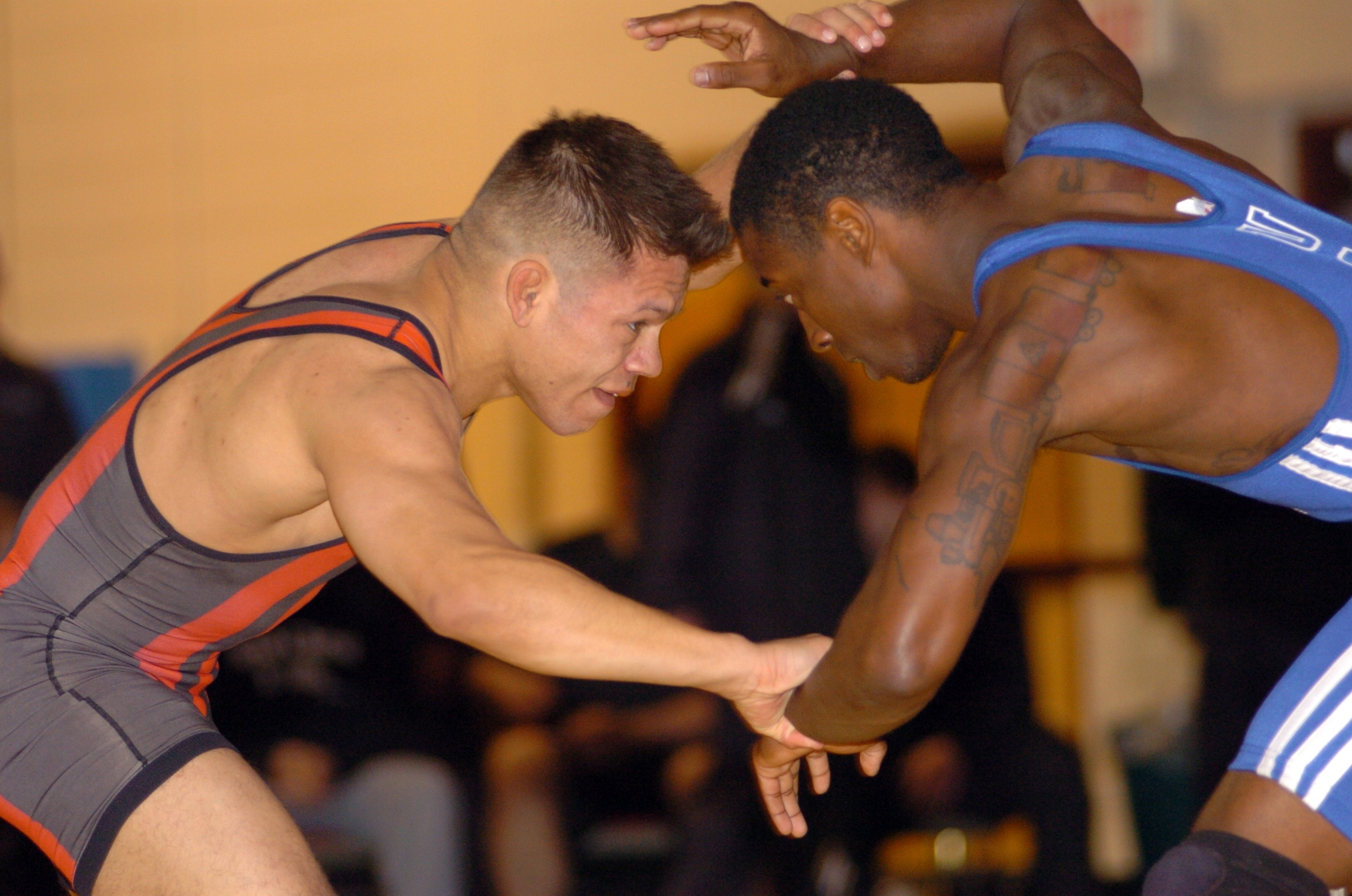 July 03, 2007 Army Capt. Eric Albarracin of Fort Carson, Colo., and Air Force Capt. Anthony Brooker of F.E. Warren Air Force Base, Wyo., square off in the 2007 Armed Forces Wrestling Championships at Fort Carson. Both wrestlers are scheduled to compete in the 4th Military World Games Oct. 12-21 in Hyderabad, India. Albarracin will wrestle freestyle in the 121-pound division and Brooker will compete in Greco-Roman at the same weight.